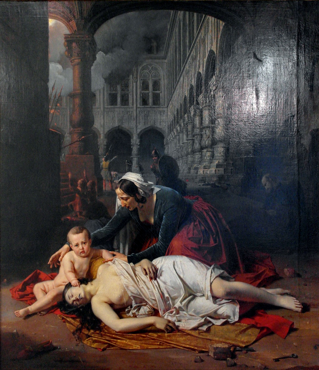 The Sacking of Liège in 1468